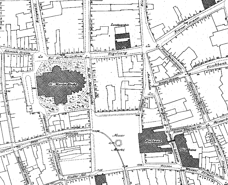 Part of a map of the Rostock town from 1911